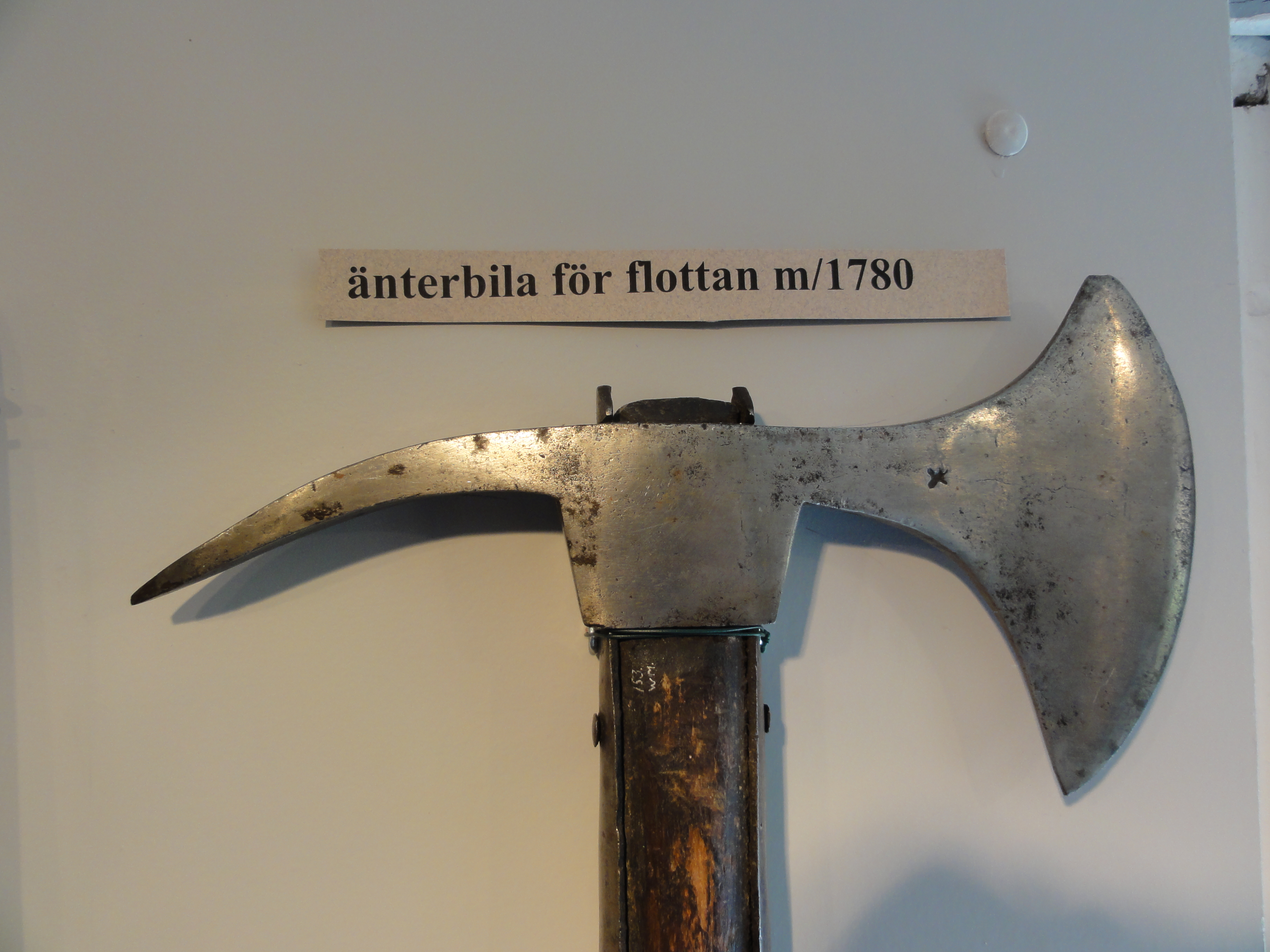 Naval axe of Sweden